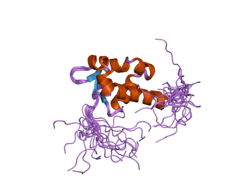 Cartoon representation of the molecular structure of protein registered with 2cqk code.